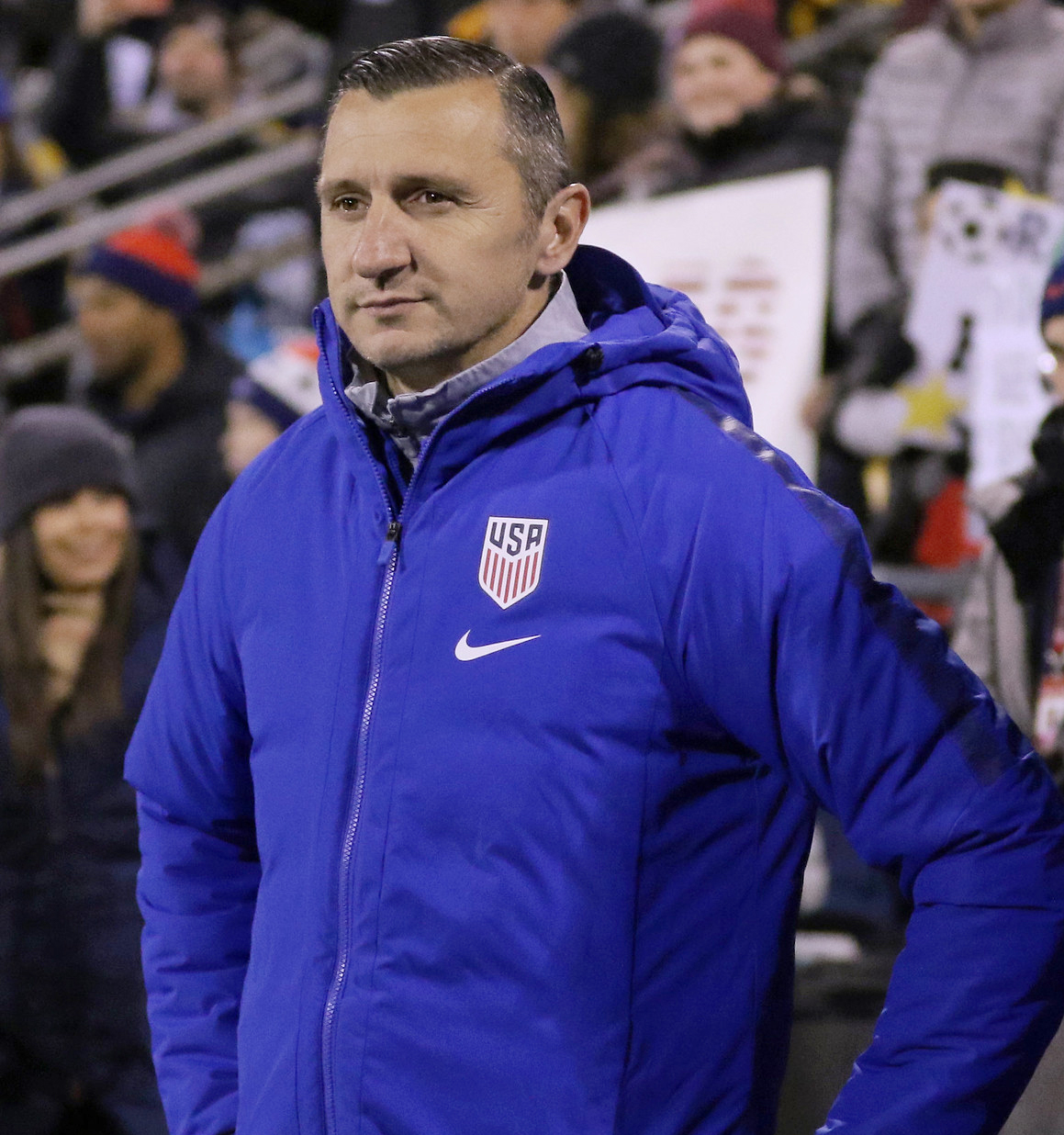 Vlatko Andonovski in his first game as head coach of the USWNT in Columbus, OH, playing Sweden on November 7, 2019.